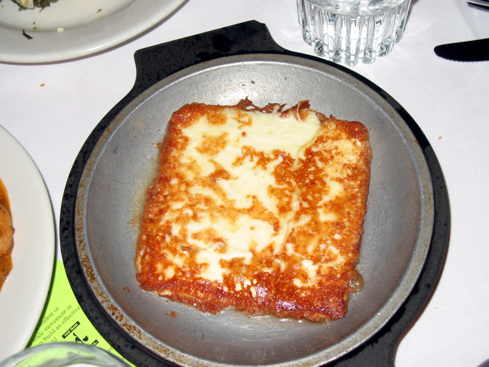 Greek Islands 200 S. Halstead Reviewed on the Chicago Bites Podcast at